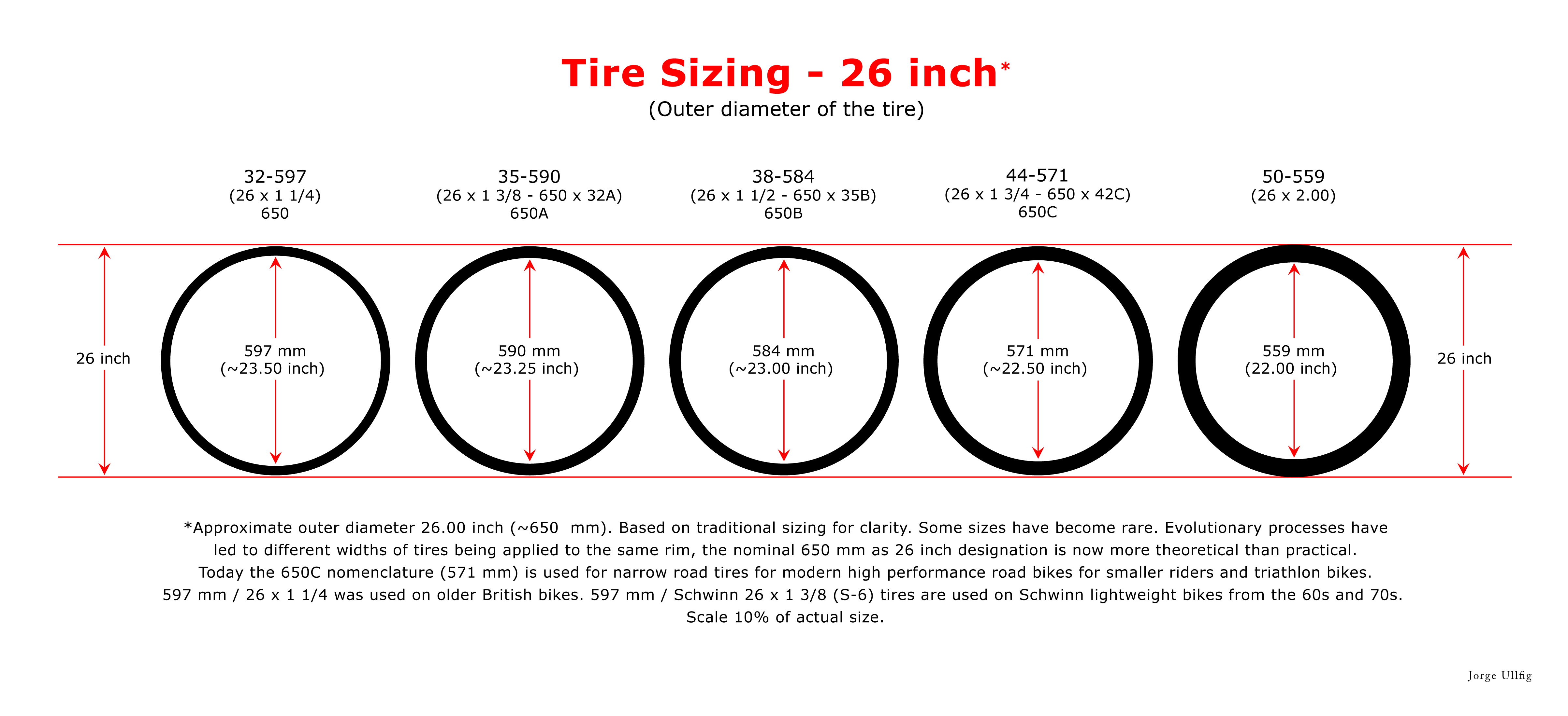 Bicycle tire and wheel diagrams